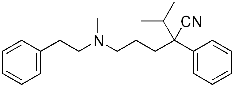 chemical structure of emopamil